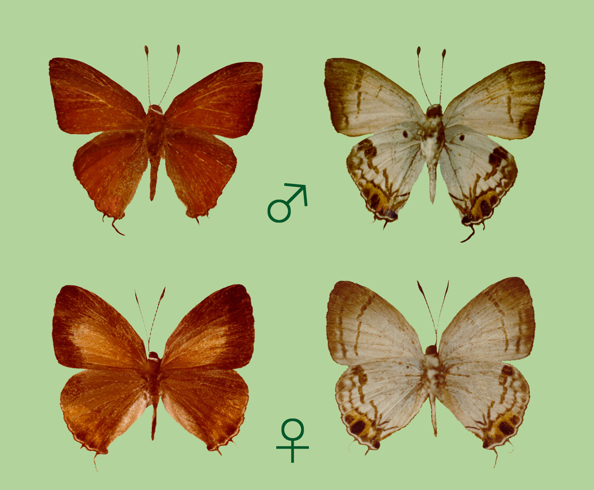 Hypolycaena schroederi, male & female